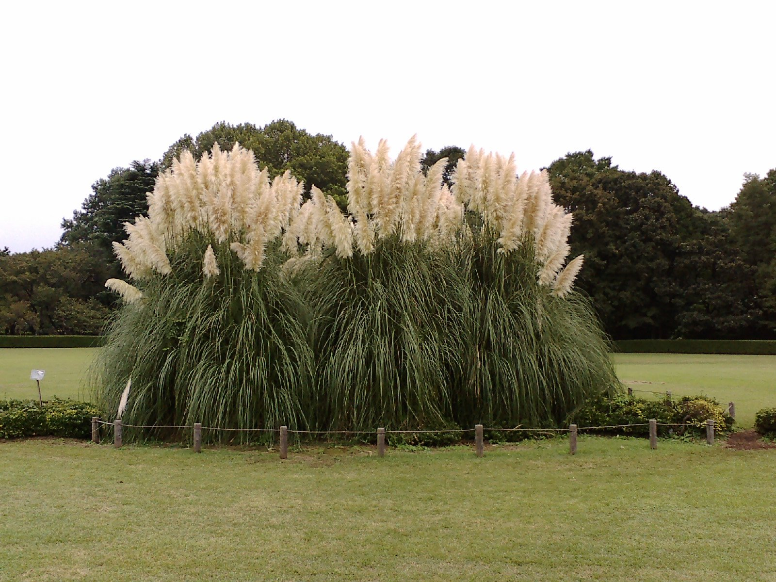 Big tuft of Pampas Grass in Jindai Botanical Garden (Tokyo, Japan), Height 4 meter and diameter 7 meter respectively.